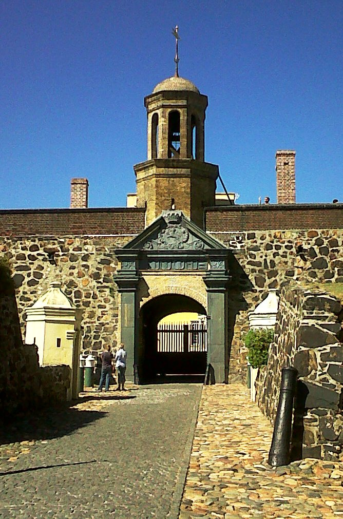 The main gateway, known as the Van der Stel Gate– built in 1682 – replaced the old entrance, which faced the sea. The pediment bears the coat of arms of the United Netherlands, portraying the crowned lion rampant holding the seven arrows of unity in its paw. Carved on the architrave below are the arms of Van Hoorn, Delft, Amsterdam, Middelburg, Rotterdam and Enkhuizen—all Dutch cities in which the United East India Company had chambers. Two VOC (Vereenighde Oost-Indische Compagnie) monograms flank the carvings. The two pilasters, entablature and pediment above are built of grey-blue stone, while the entrance is made of small yellow bricks called ijselstene, making it a unique example of 17th century Dutch classicism at the Cape. This media shows a South African Protected Site with SAHRA file reference 9/2/018/0056.